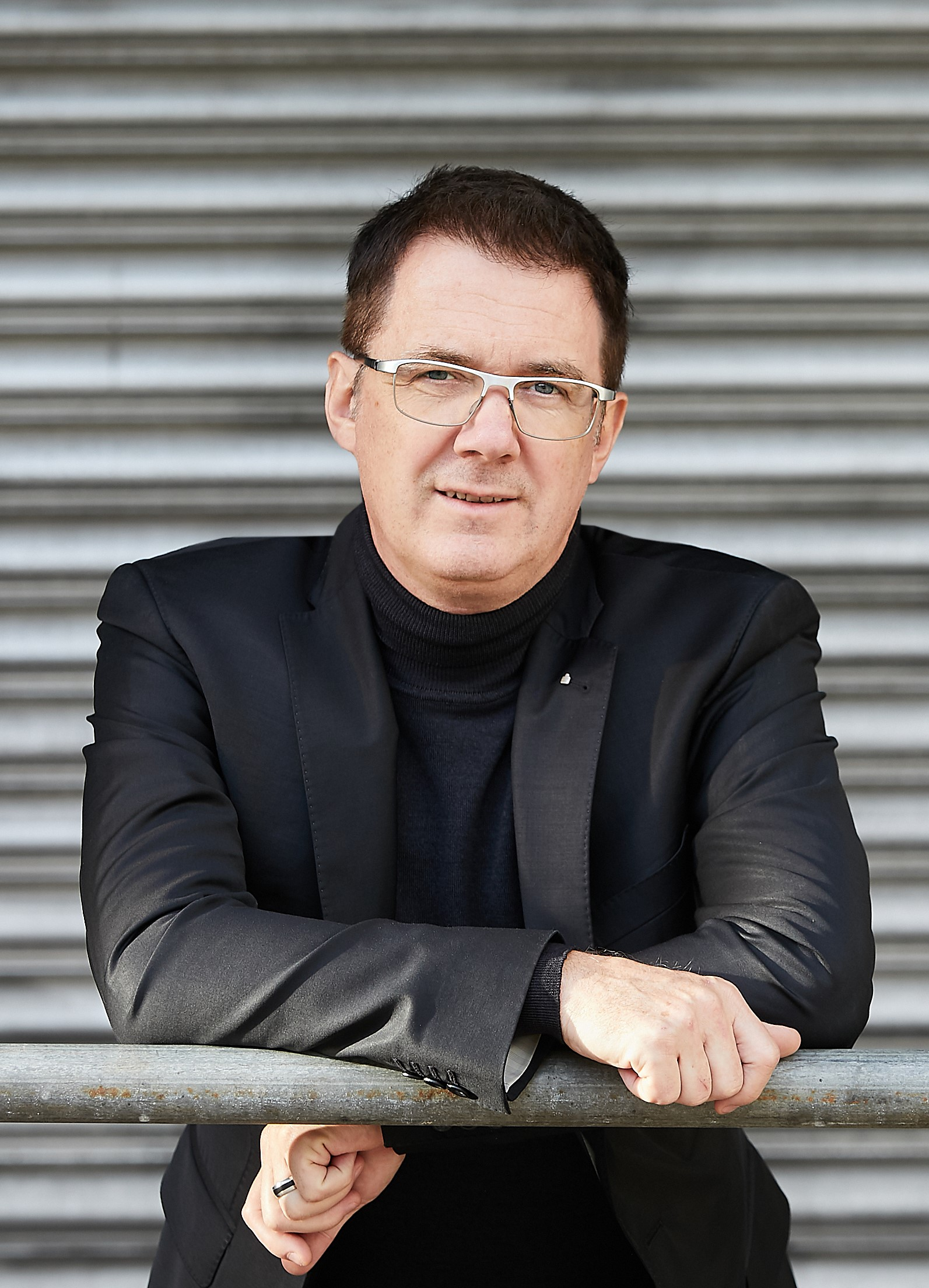 Marcus Riekeberg